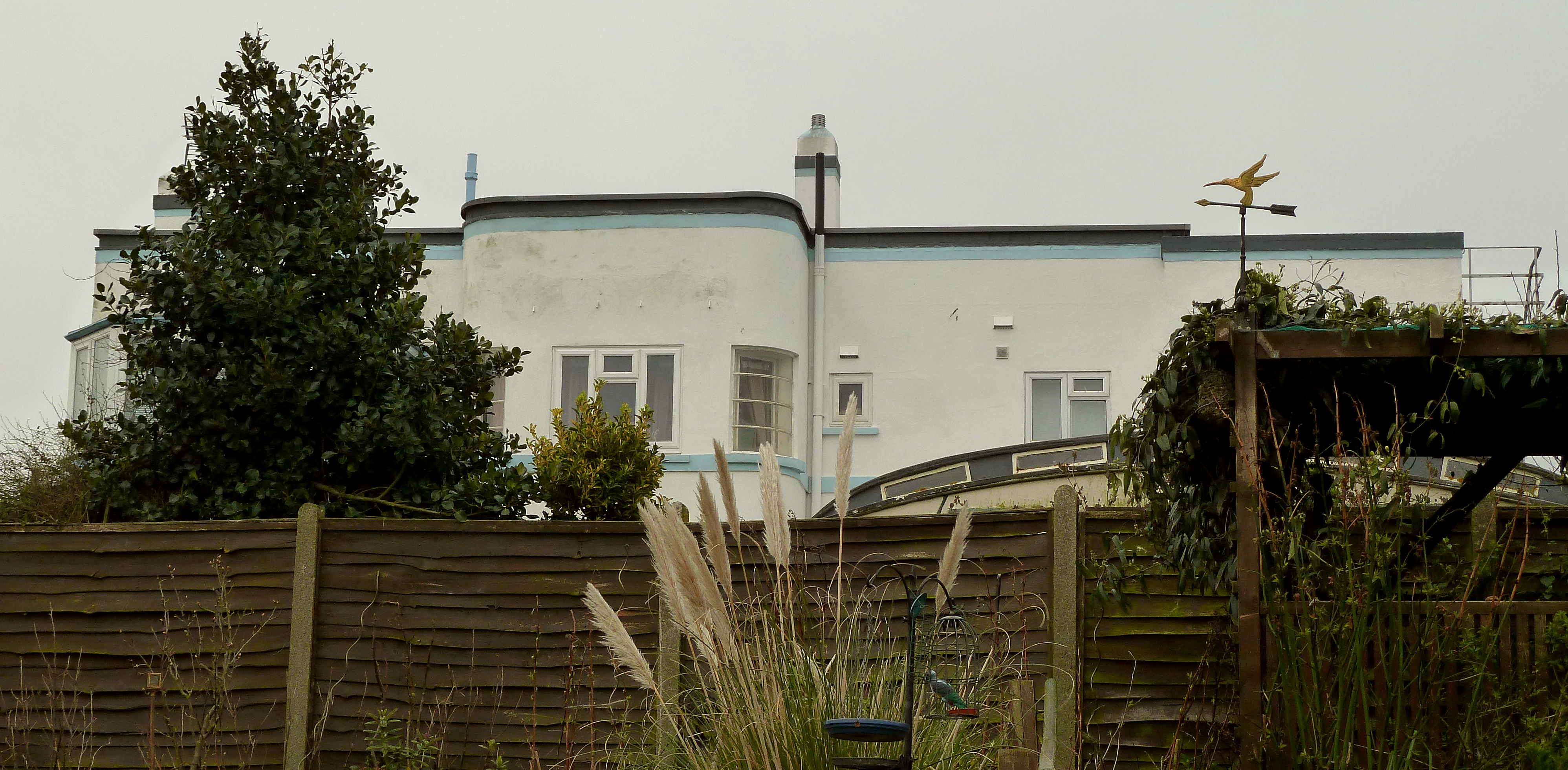 Back view of Mayfair Court, Clifftown Gardens, Herne Bay, Kent, England; built in 1934–35 for Lydia Cecilia Hill. a favourite of Ibrahim, Sultan of Johore. Photographed from High View Avenue, looking east.